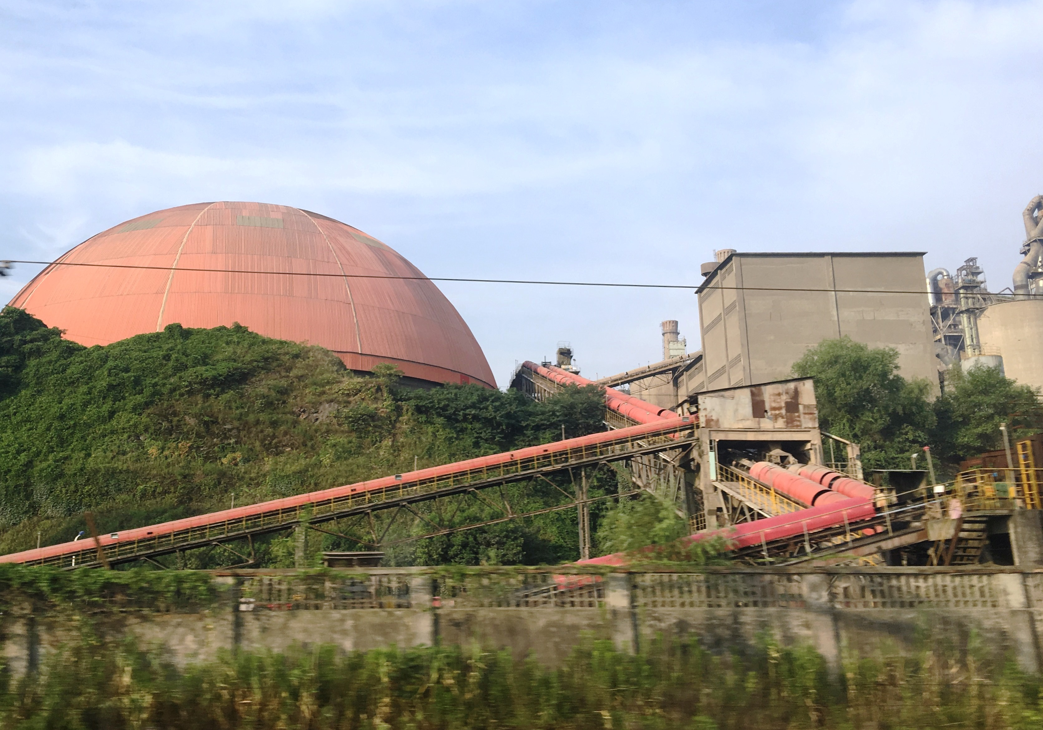 The "China Cement Factory", owned by Anhui CONCH Corporation, located by the Zhuizi Mountain in Qixia (Nanjing), Jiangsu Province, China.